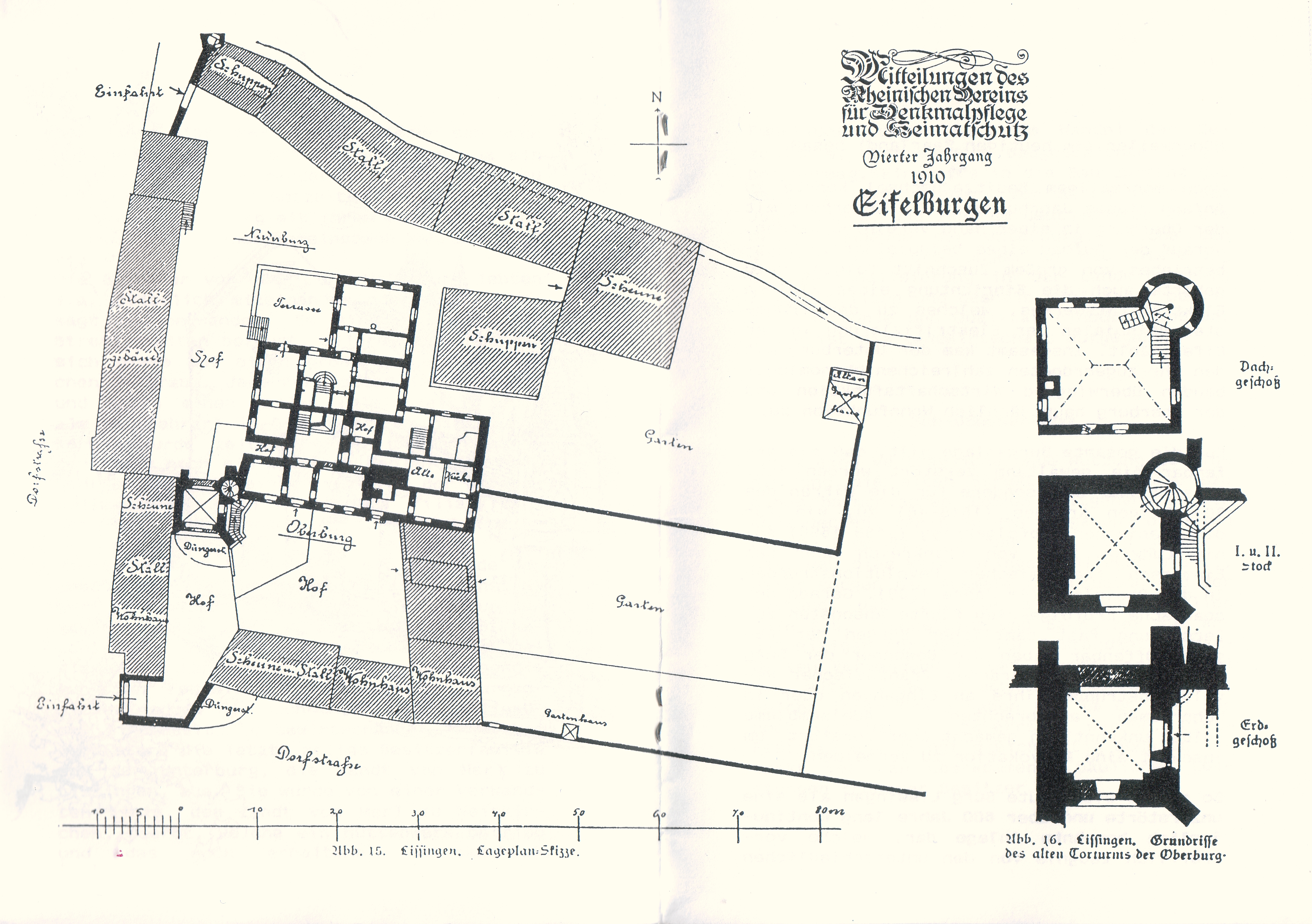 Lissingen Castle